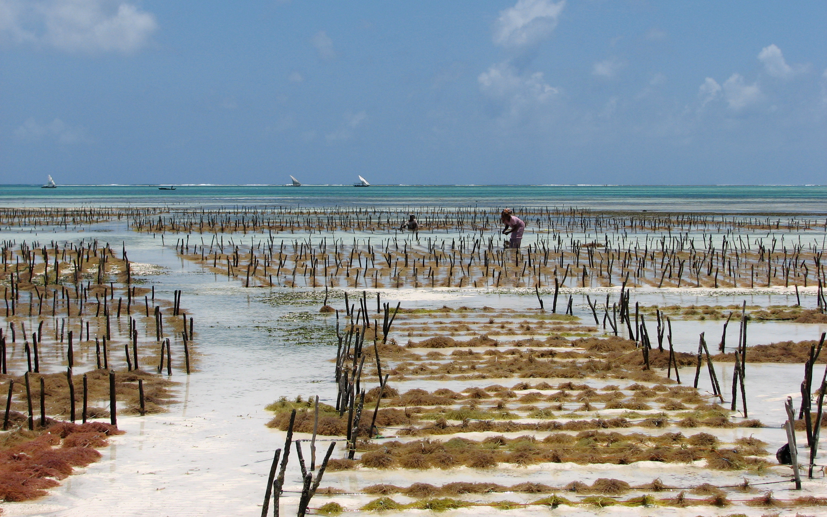 Aquacultures of red algae (Eucheuma sp.), Jambiani, Zanzibar, Tanzania